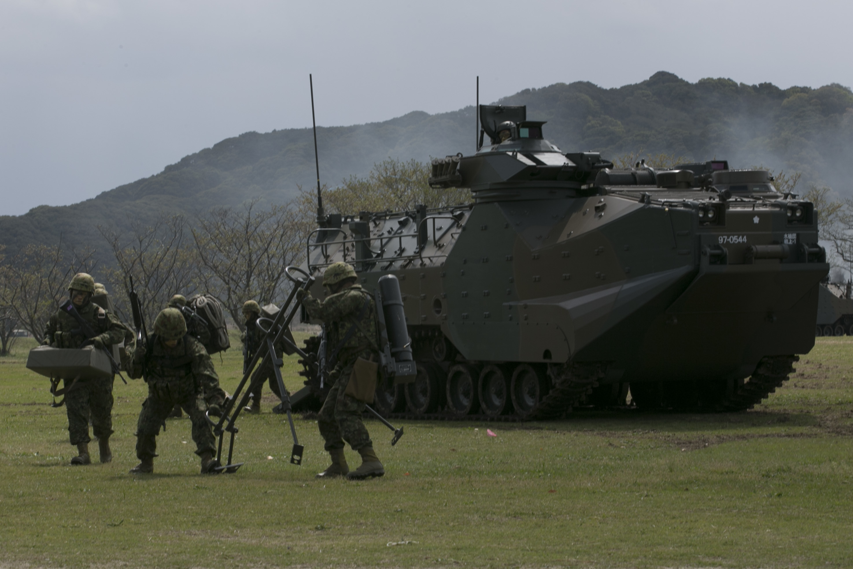 Service members with the Japanese Amphibious Rapid Deployment Brigade show their capabilities during the ARDB’s unit-activation ceremony at Camp Ainoura, Japan, April 7, 2018. The 31st Marine Expeditionary Unit supported the ceremony with a fast rope demonstration from a CH-53E Super Stallion. As the Marine Corps’ only continuously forward-deployed MEU, the 31st MEU provides a flexible force ready to perform a wide range of military operations throughout the Indo-Pacific region.